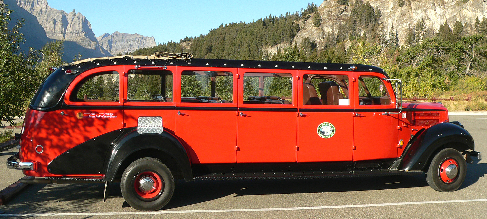 Jammer bus at the St. Mary Lake Visitor Center. Photo taken with a Panasonic Lumix DMC-FZ20 in Glacier National Park, Montana, USA.